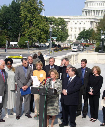 Rep. Carolyn Maloney speaks at a press conference with members of the 9/11 Commission and 9/11 families to announce House legislation that mirrors the commission's recommendations. Maloney and Rep. Christopher Shays (far left) chair the 9/11 Commission Caucus. 9/29/04